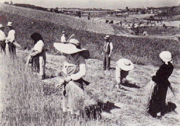 Straw harvest (for straw hats) in 1900, Tuscany – Italy.